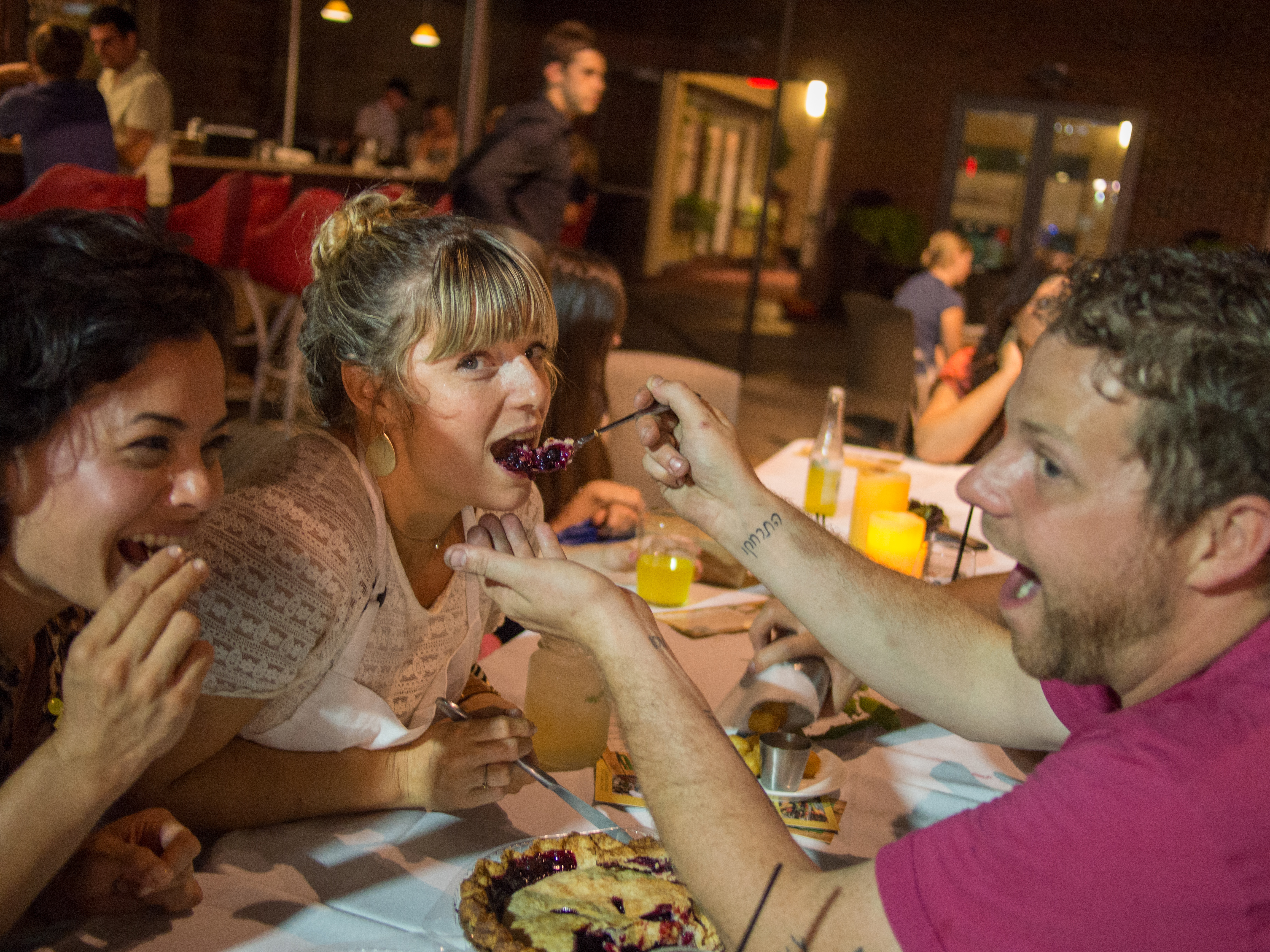 NFNS chefs at Veggie U DInner